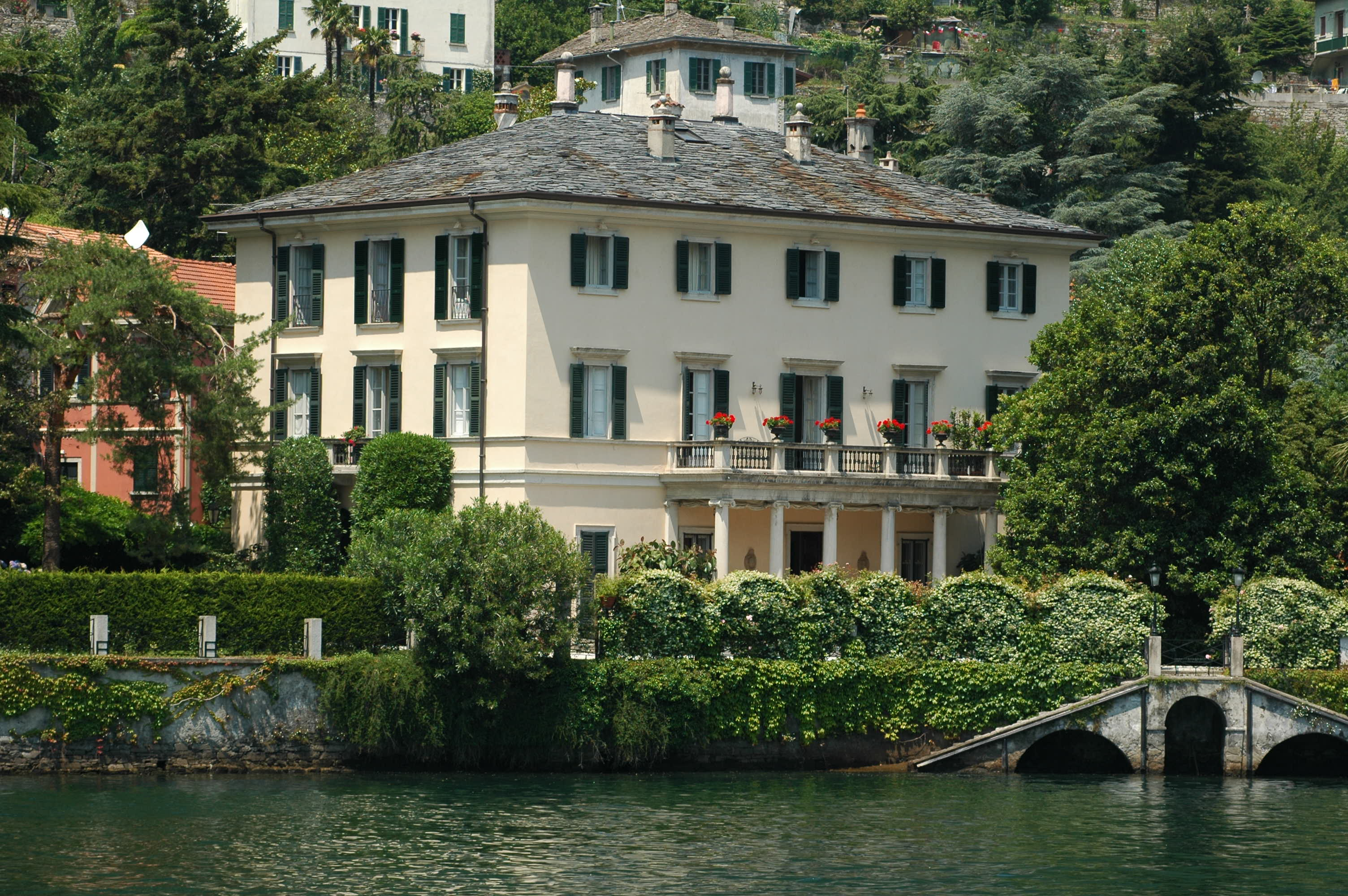 Villa in Laglio on Lake Como (Italy) owned by actor George Clooney.